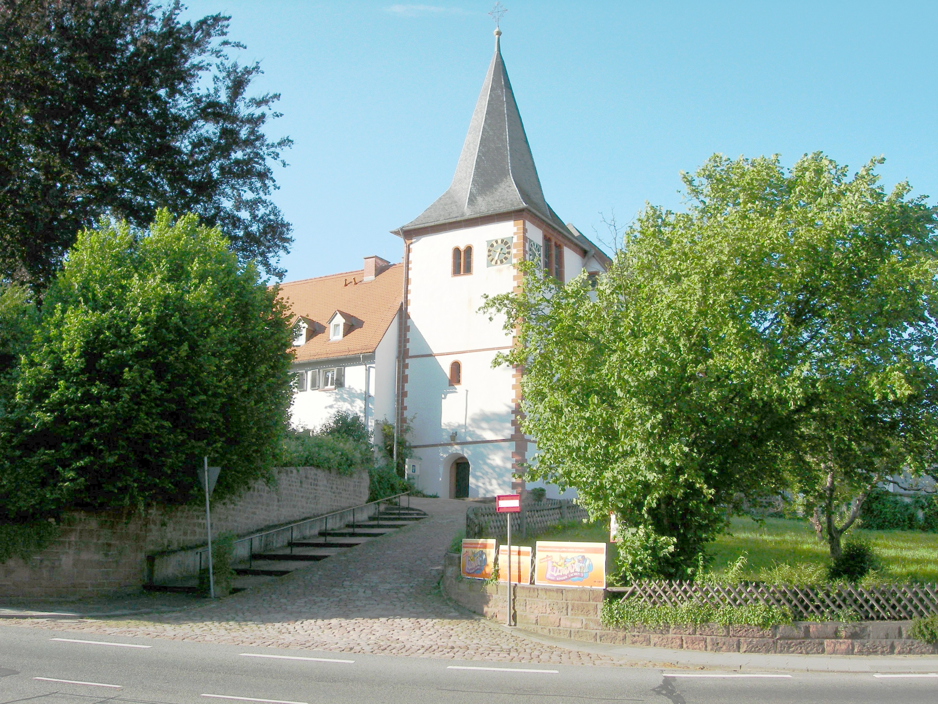 Höchst im Odenwald (Hesse), old (protestant) church